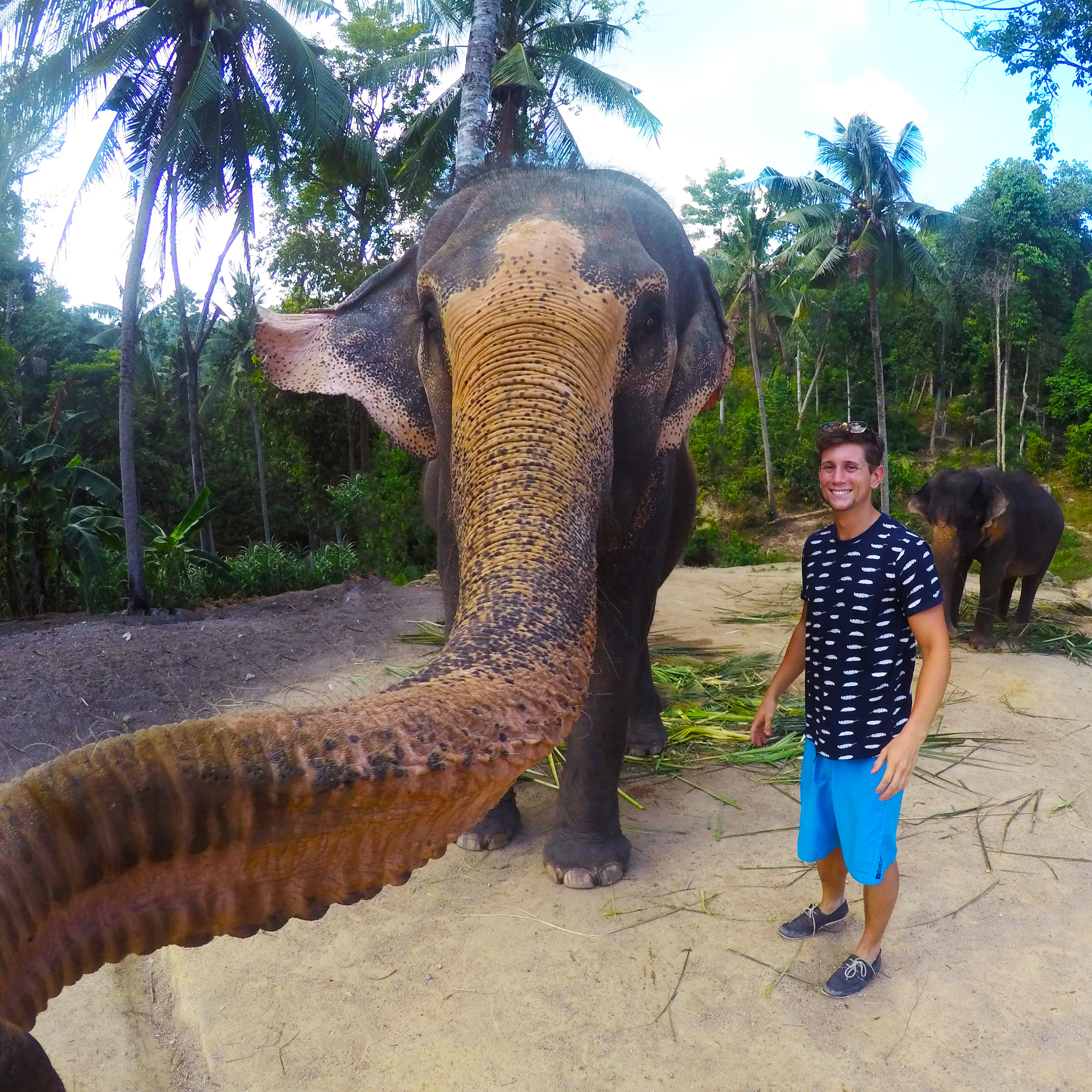 Photo taken with the GoPro camera of Christian Le Blanc